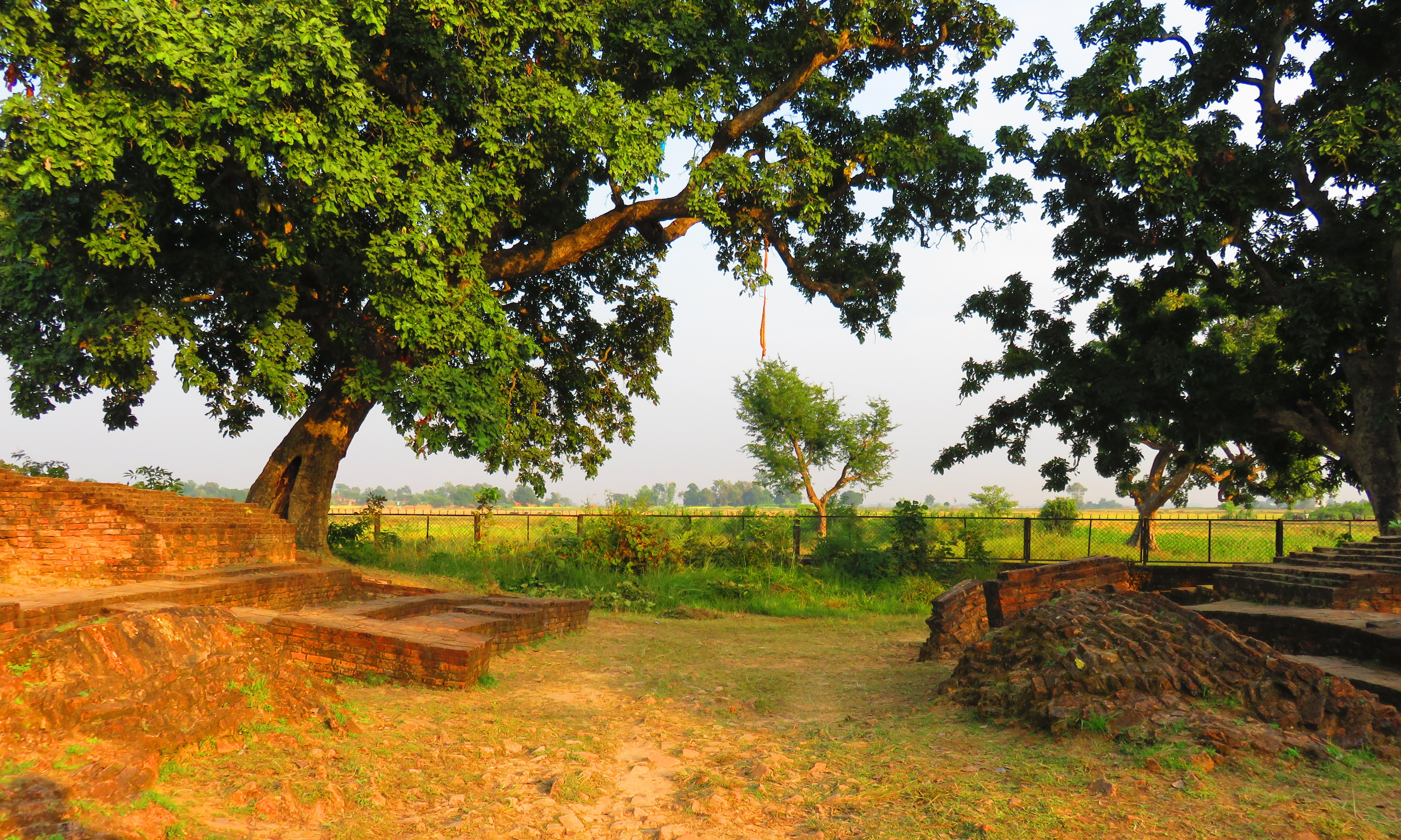 The east gate of King Suddhodana's Palace at Tilaurakot archaeological site in Taulihawa, Kapilvastu District, Nepal